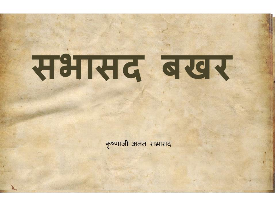 Sabhasad bakhar a Maratha history text by Anant Sabhasad